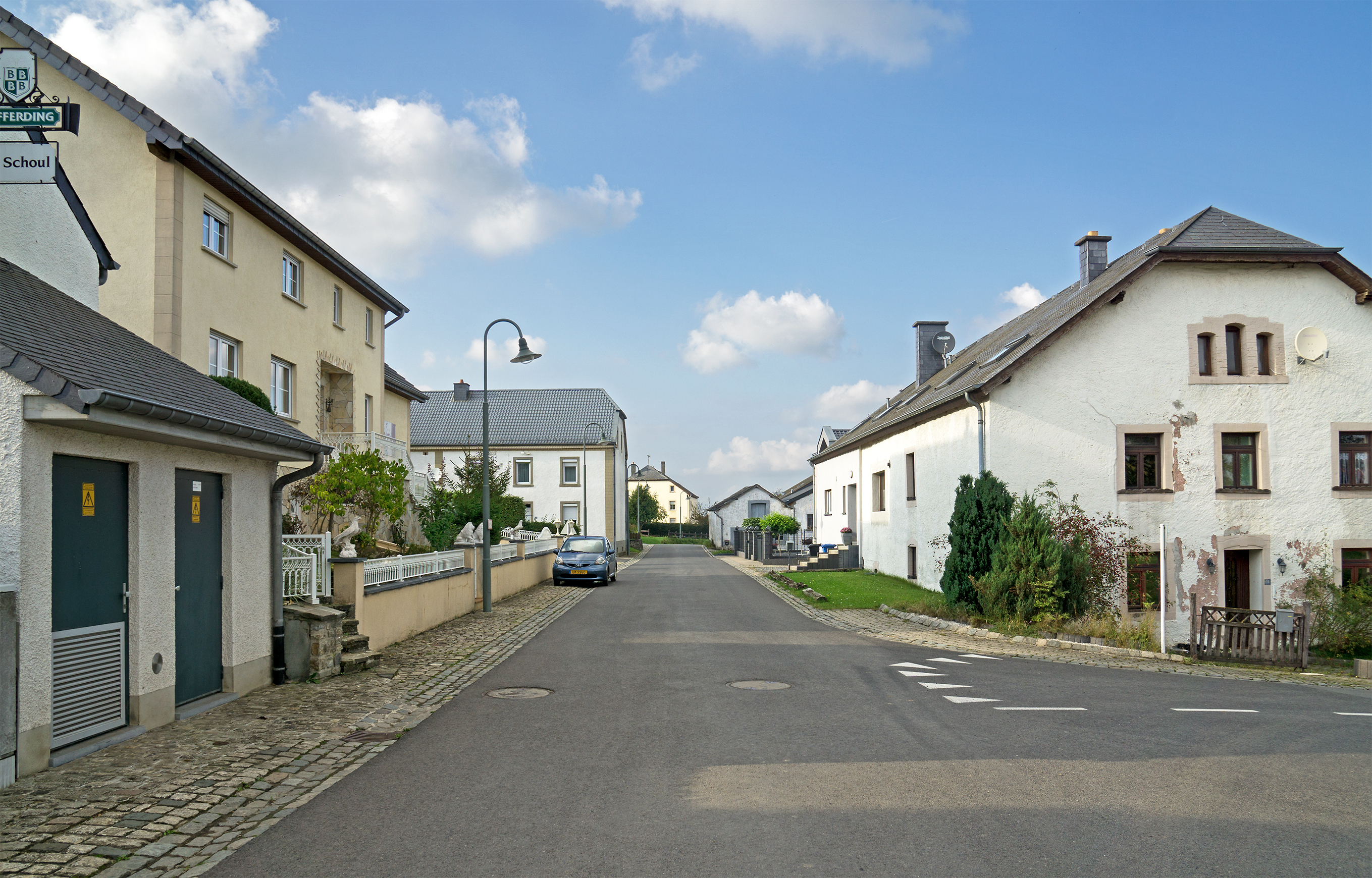 CR373 in Stockem